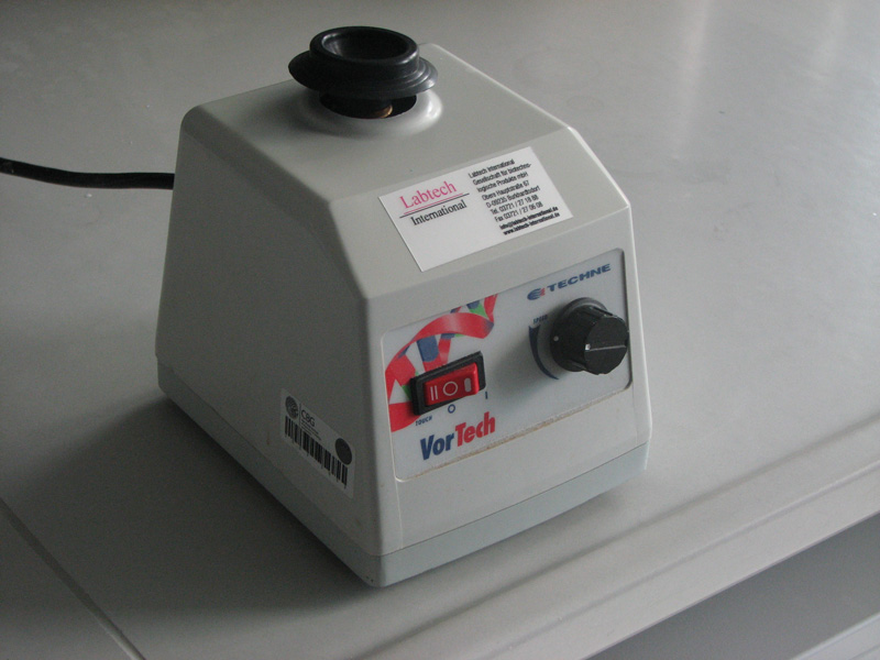 A small laboratory vortex mixer. Wstrząsarka (worteks) laboratoryjna.